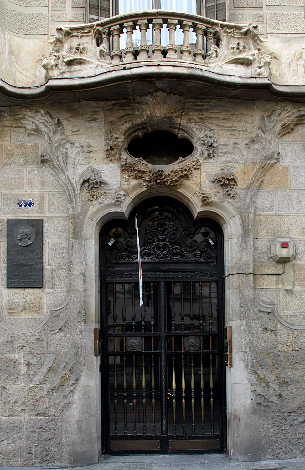 Casa Fargas - Catalan Modernisme (1907 - 1909, Enric Sagnier)